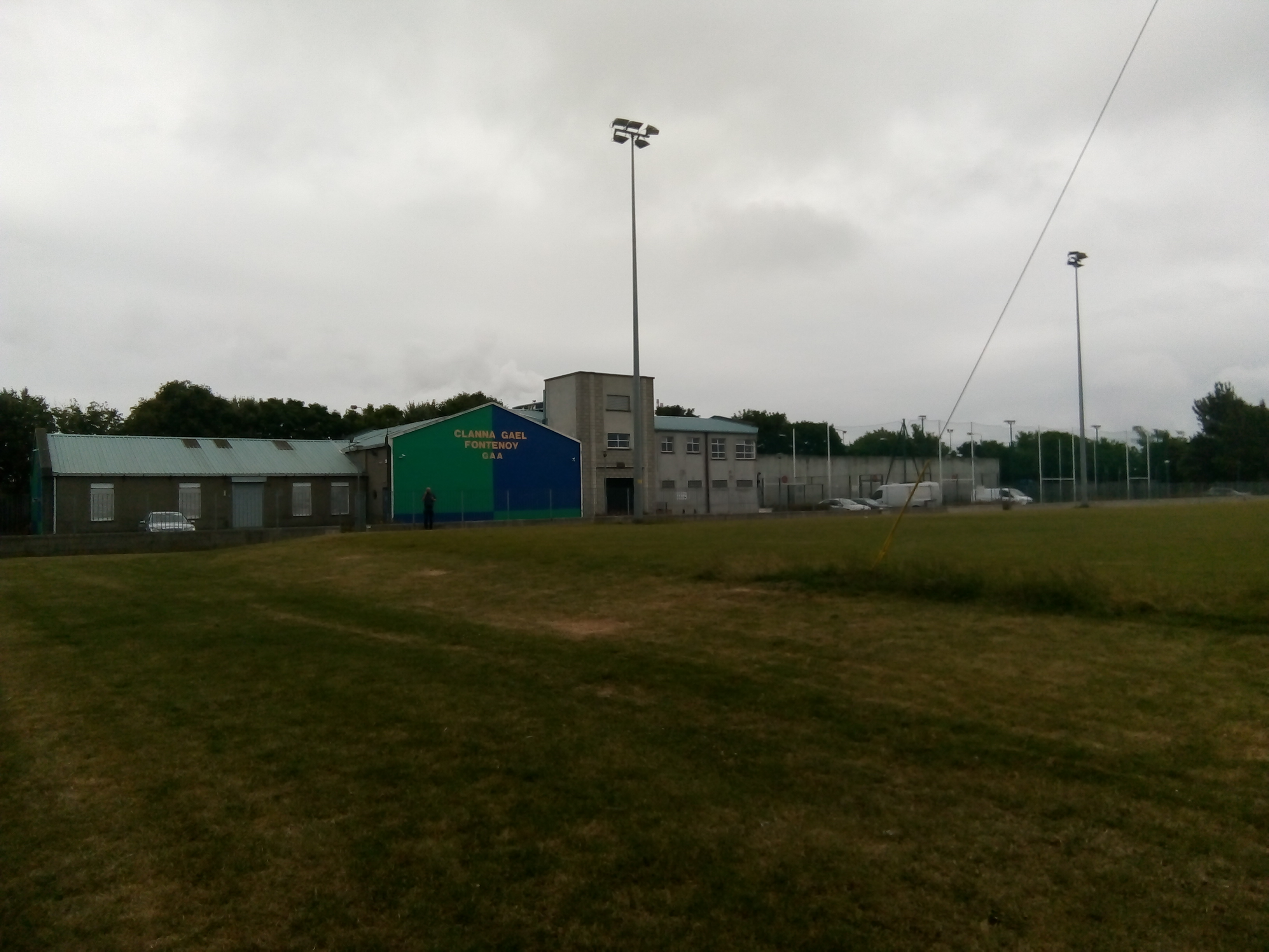 Clanna Gael Fontenoy field